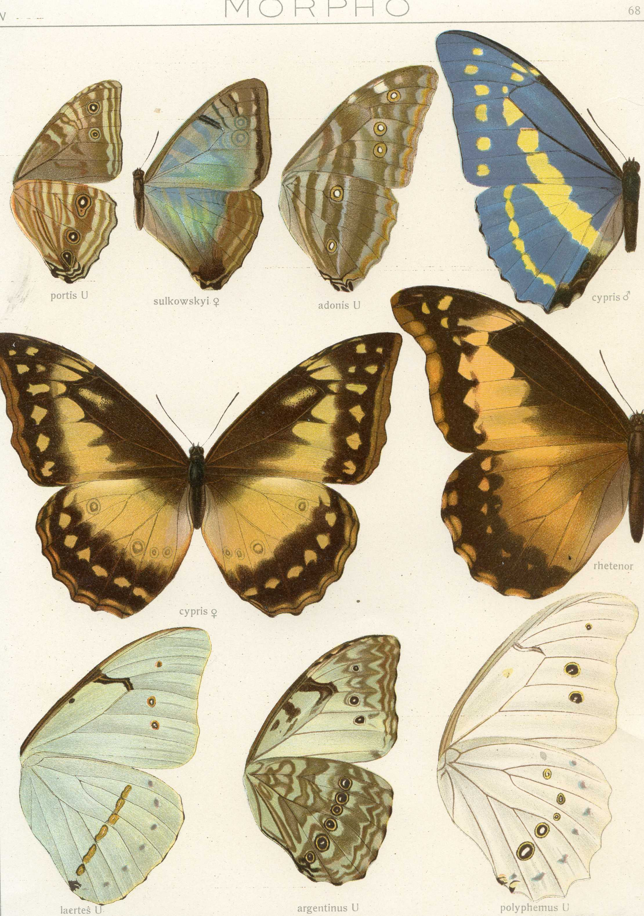 Plate from Adalbert Seitz ed. The Macrolepidoptera of the world; a systematic description of the hitherto known Macrolepidoptera Volume V: The American Rhopalocera. Stuttgart 1924 - Page 68 (MORPHO) German Grossschmetterlinge der erde French Les Macrolépidoptères du Globe. Révision systématique des Macrolépidoptères connus jusqu' à ce jour. Stuttgart, Kernen, 1911-1945. The French edition was published by Eugène Le Moult (1882-1967) and also distributed by him. Morpho portis Underside = Valid species Morpho portis (Hubner ,1821) Morpho sulkowskyi Female = Valid species Morpho sulkowskyi Kollar, 1850 Morpho adonis Underside = Morpho marcus (Schaller, 1785) Morpho cypris Male =Valid species Morpho cypris Westwood, 1851 Morpho cypris Female Morpo rhetenor = Valid species Morpho rhetenor (Cramer, [1775]) Morpho laertes Underside = Morpho epistrophus (Fabricius, 1796) Disputed . May be valid species? argentinus Underside = Morpho epistrophus (Fabricius, 1796) subsp. argentinus Fruhstorfer, 1907 polyphemus Underside = Valid species Morpho polyphemus J.O. Westwood, [1850]